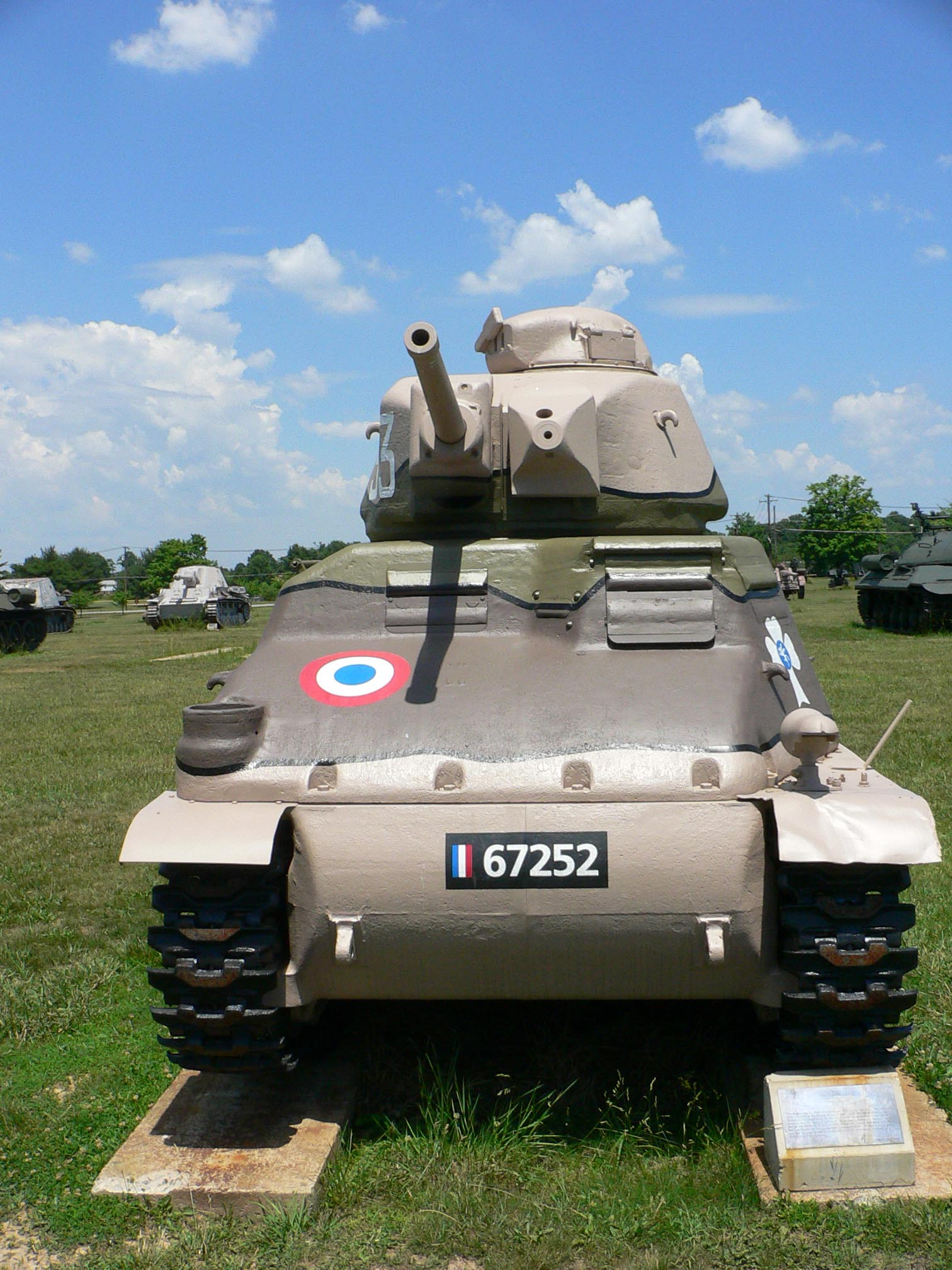 Picture taken by myself, Mark Pellegrini, at the United States Army Ordnance Museum (Aberdeen Proving Ground, MD) on June 12, 2007.